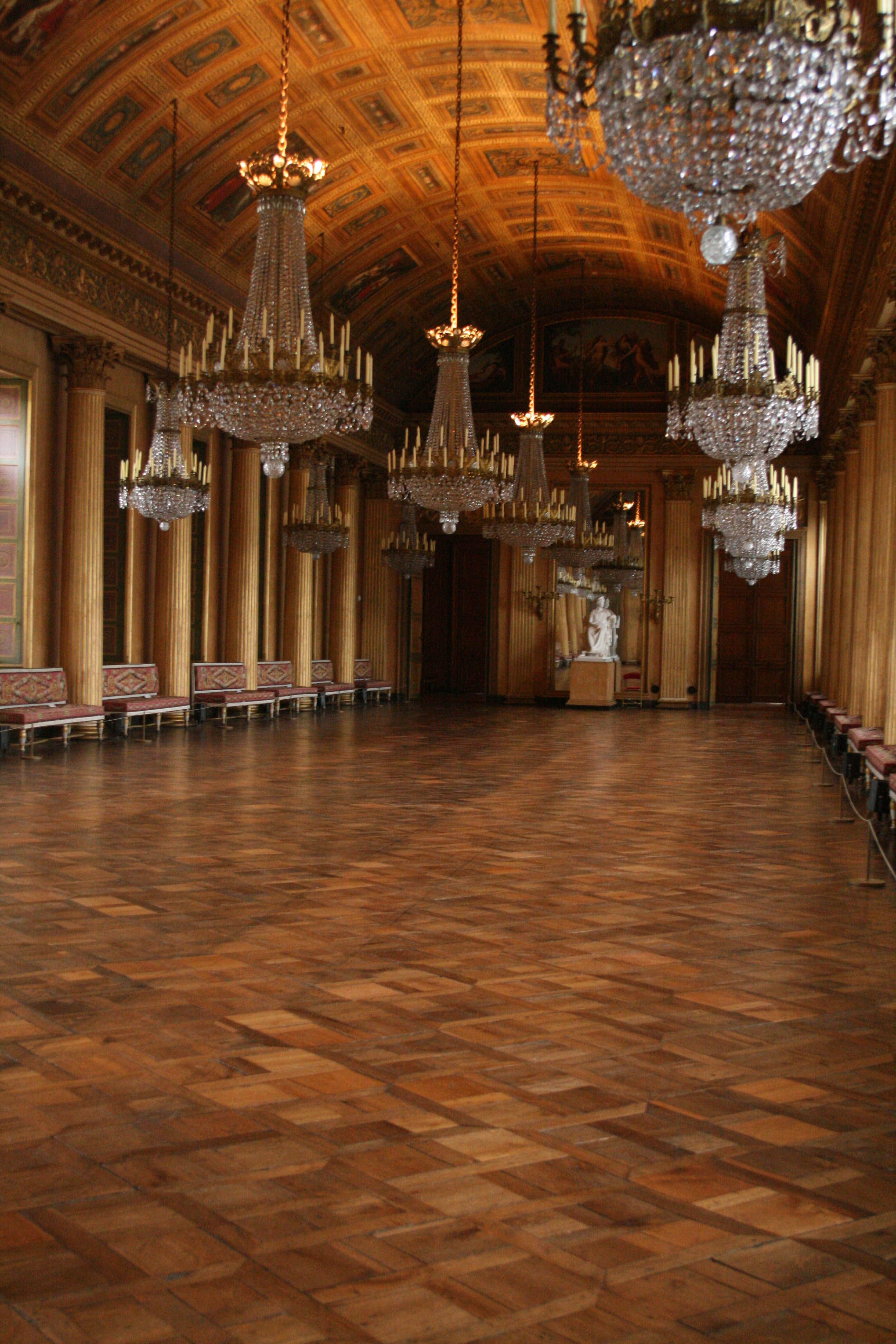 Ball room of the Château de Compiègne